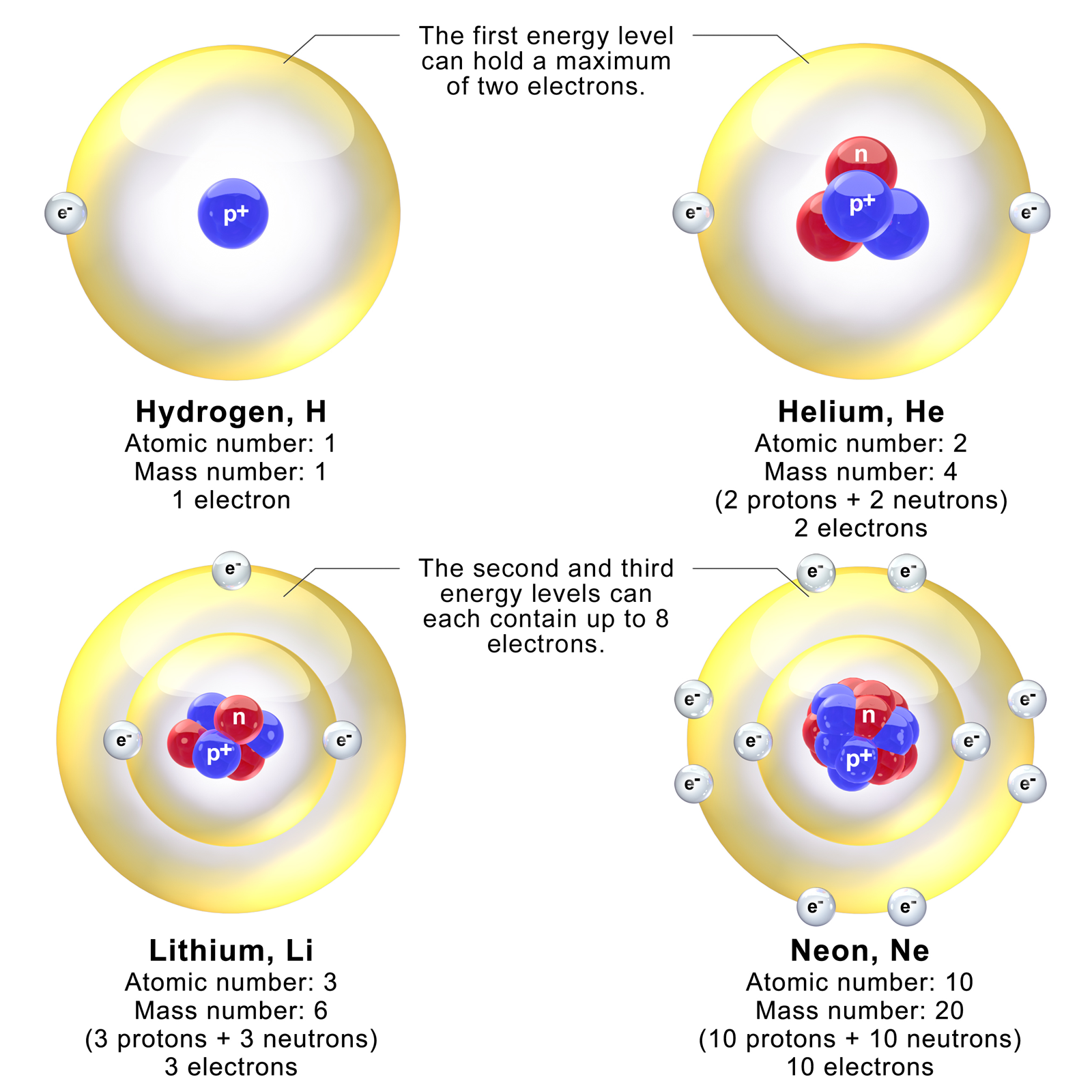 Electron Energy Levels. See a related animation of this medical topic.